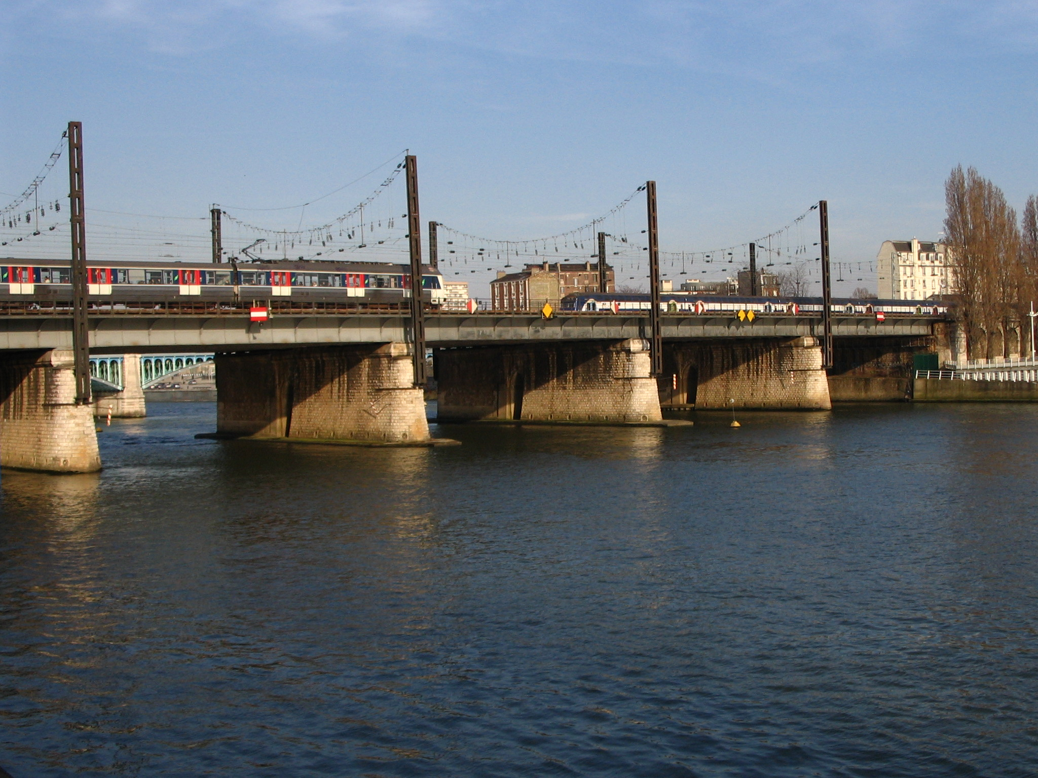 The railway bridge of Asnières-sur-Seine, a few kilometers off Paris-Saint-Lazare, in Hauts-de-Seine, France.